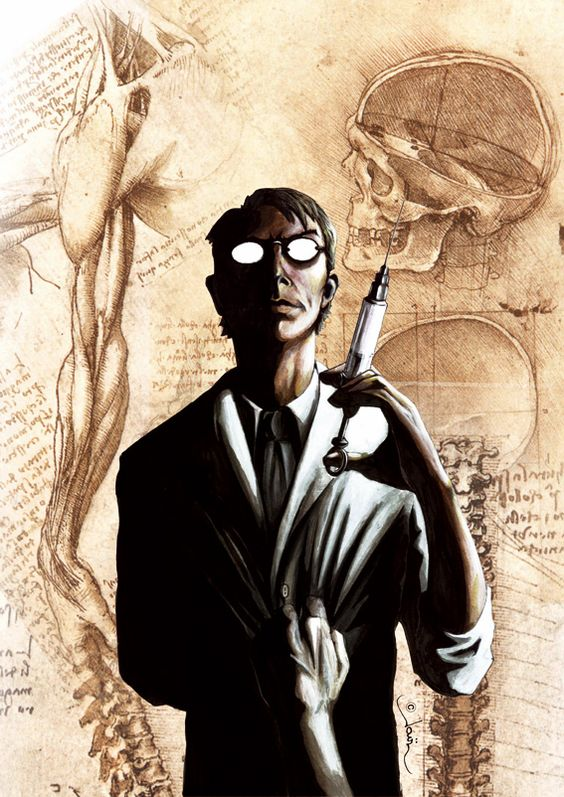 Doctor Herbert West, Javier García Ureña's artwork based on H. P. Lovecraft's story Herbert West–Reanimator.